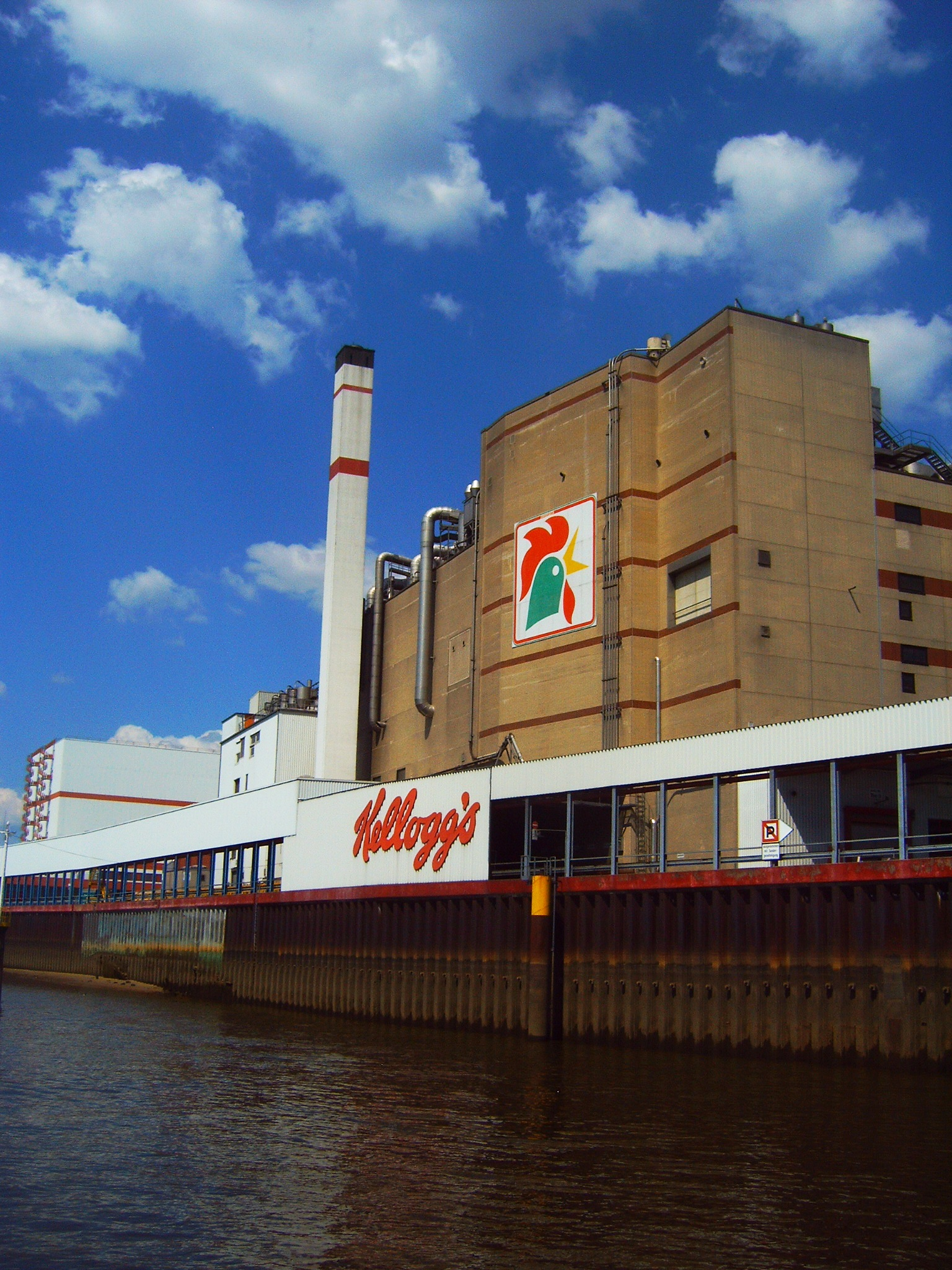 Factory unit in Bremen